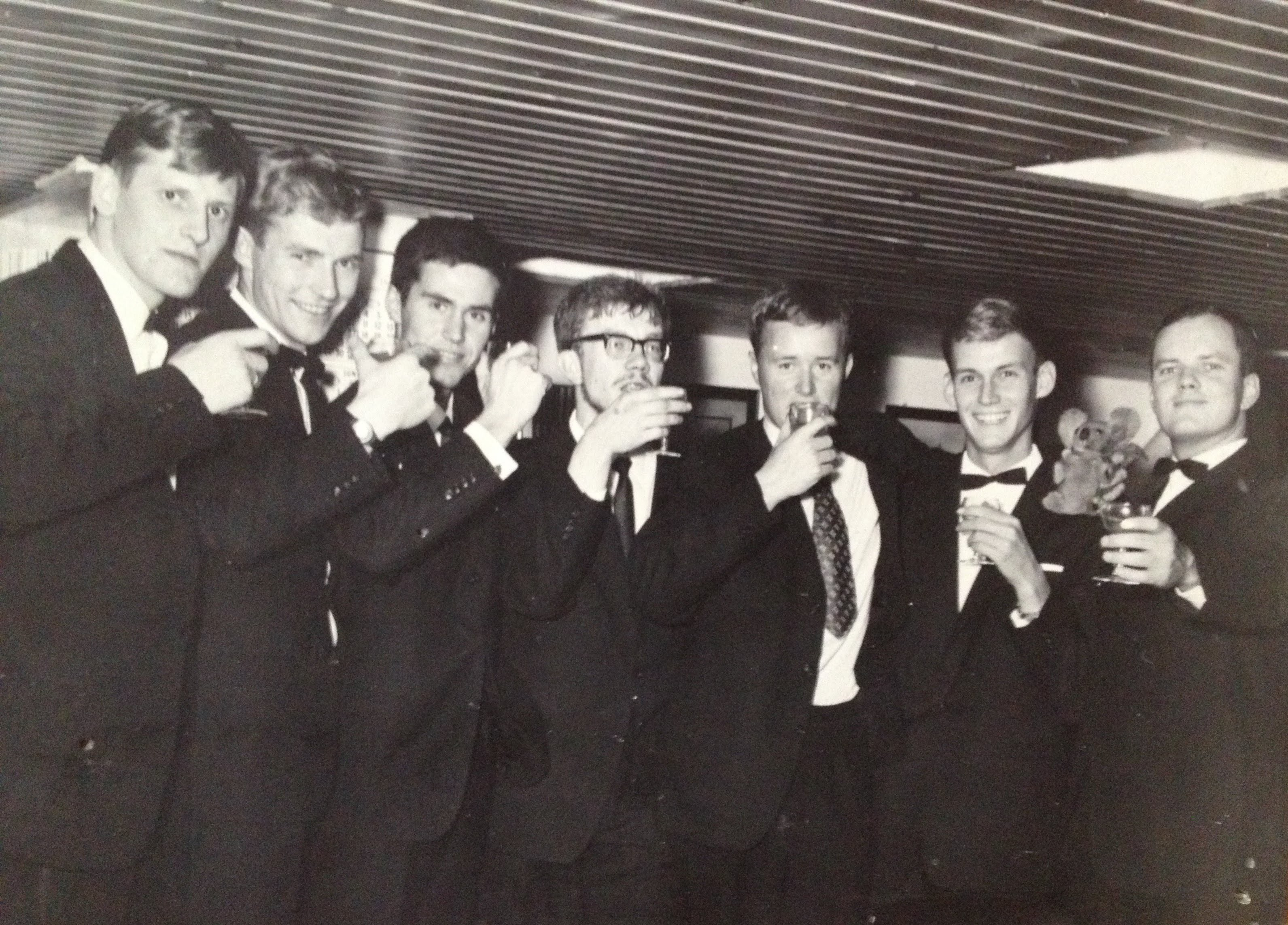 Members of Klubbstyret 1964 in Trondhjem, Norway.